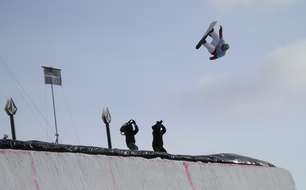 The Arctic Challenge 2006 Attribute: Photo - Jarle Nystuen (Minto)